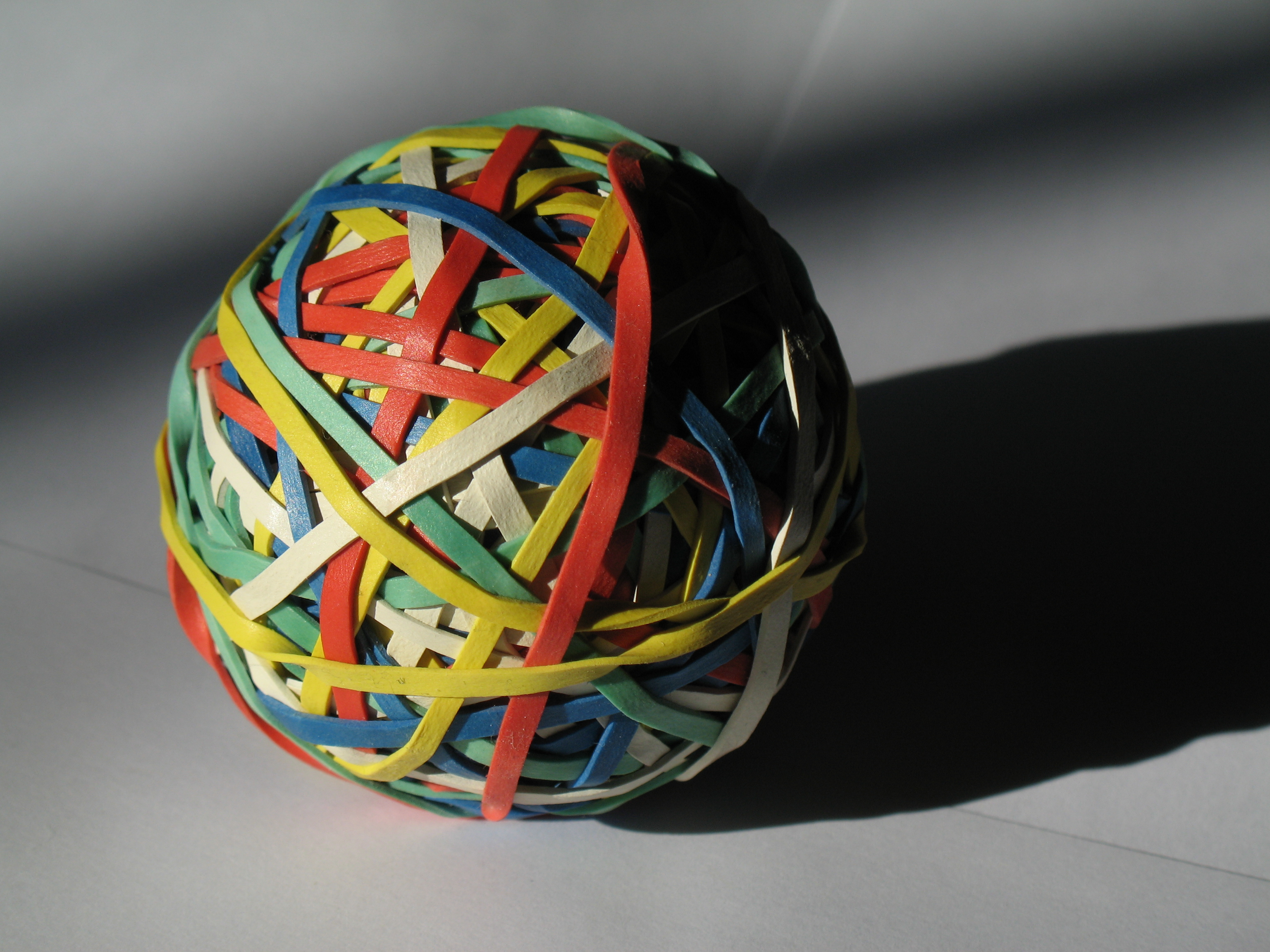 Rubber band ball (this is a new version as the old one was blurry)